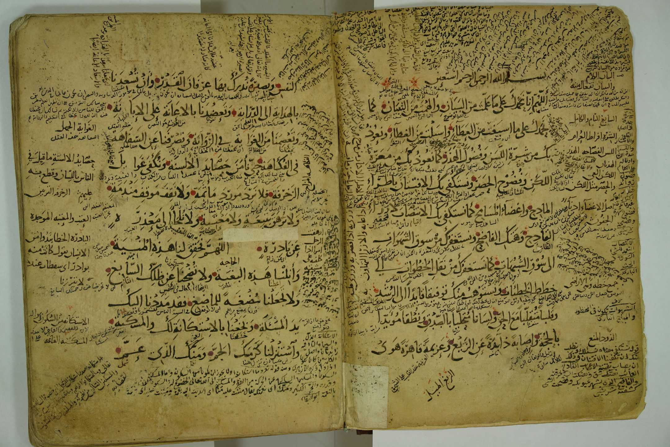 Maqamat al-Harīrī by Muhammad al-Qasim ibn Ali ibn Muhammad ibn Uthman al-Hariri